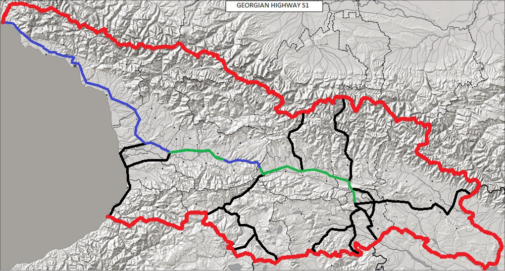 This is Georgian Highway S1 graphic map. green color is highway with four lines and blue is highway with two lines...